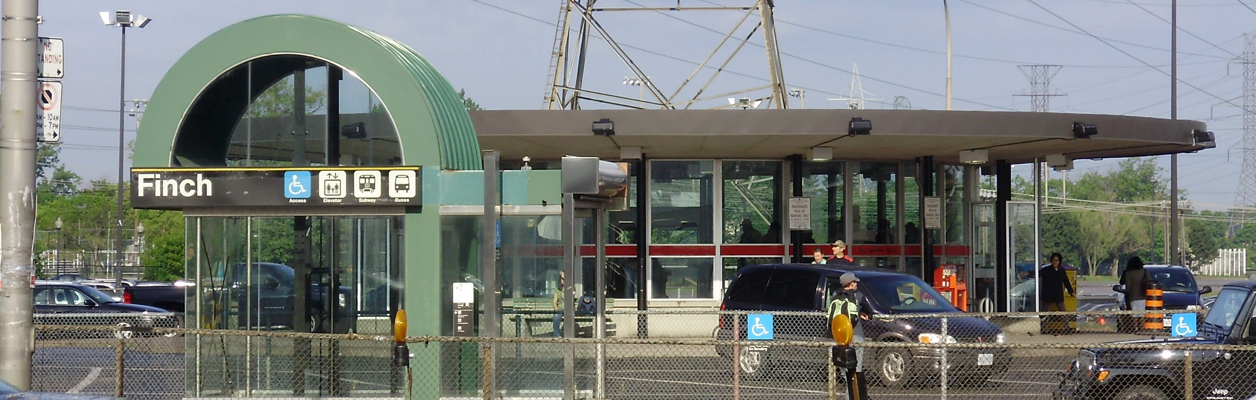 The Toronto Transit Commission's Finch station 'Kiss-N-Ride' in Toronto, Canada.